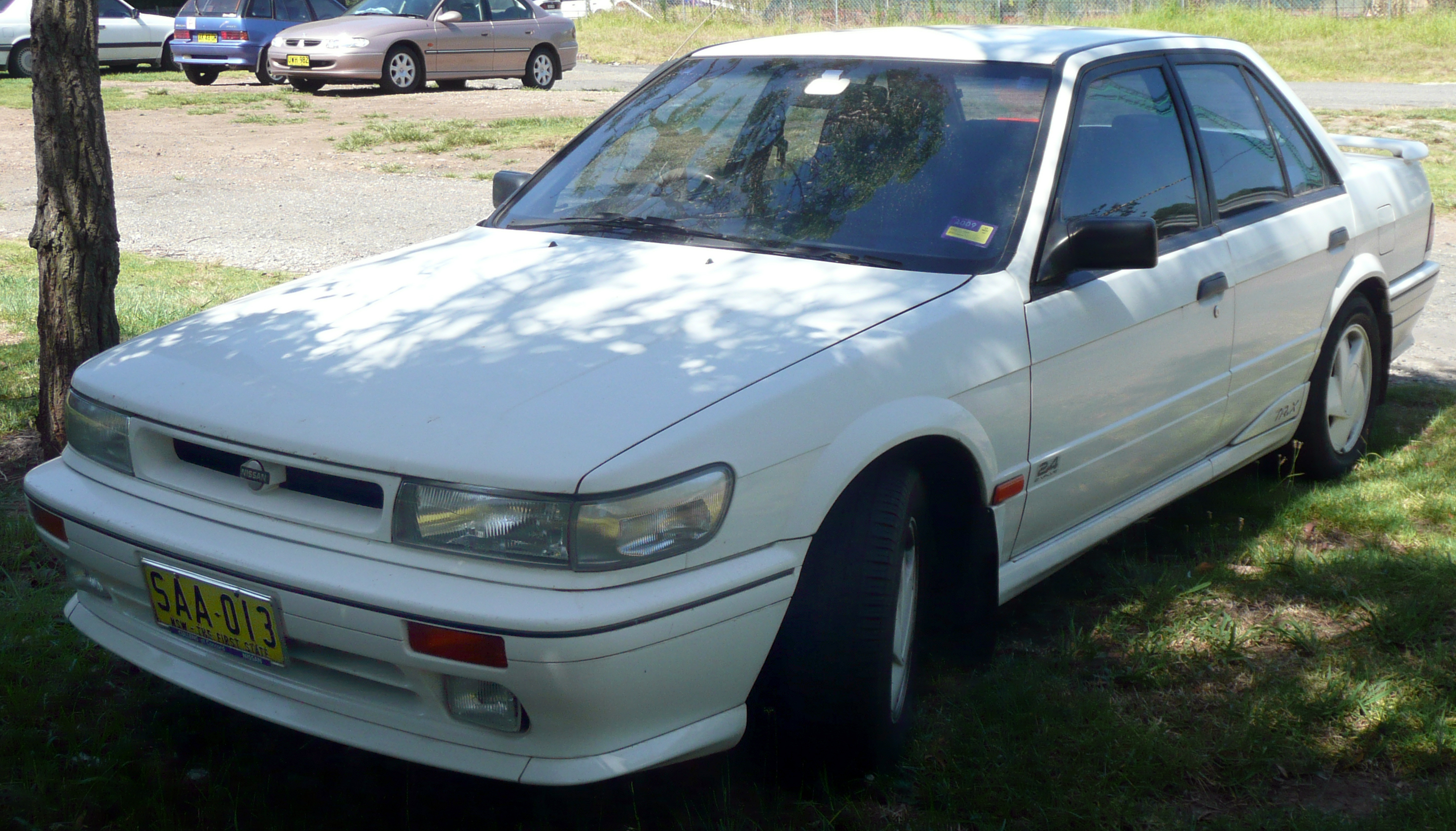 1990 Nissan Pintara (U12) TRX sedan. Photographed in Sutherland, New South Wales, Australia.